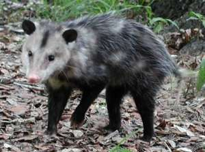 Virginia Opossum (Didelphis virginiana), as seen in Myakka River State Park, Florida